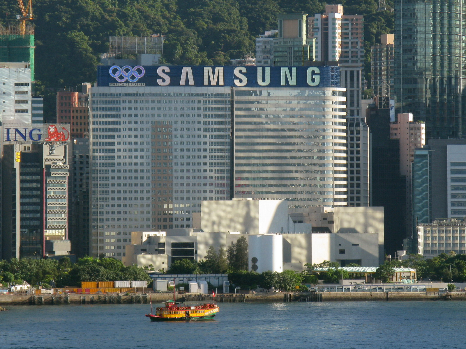 Harcourt House (left) & MassMutual Tower (right)